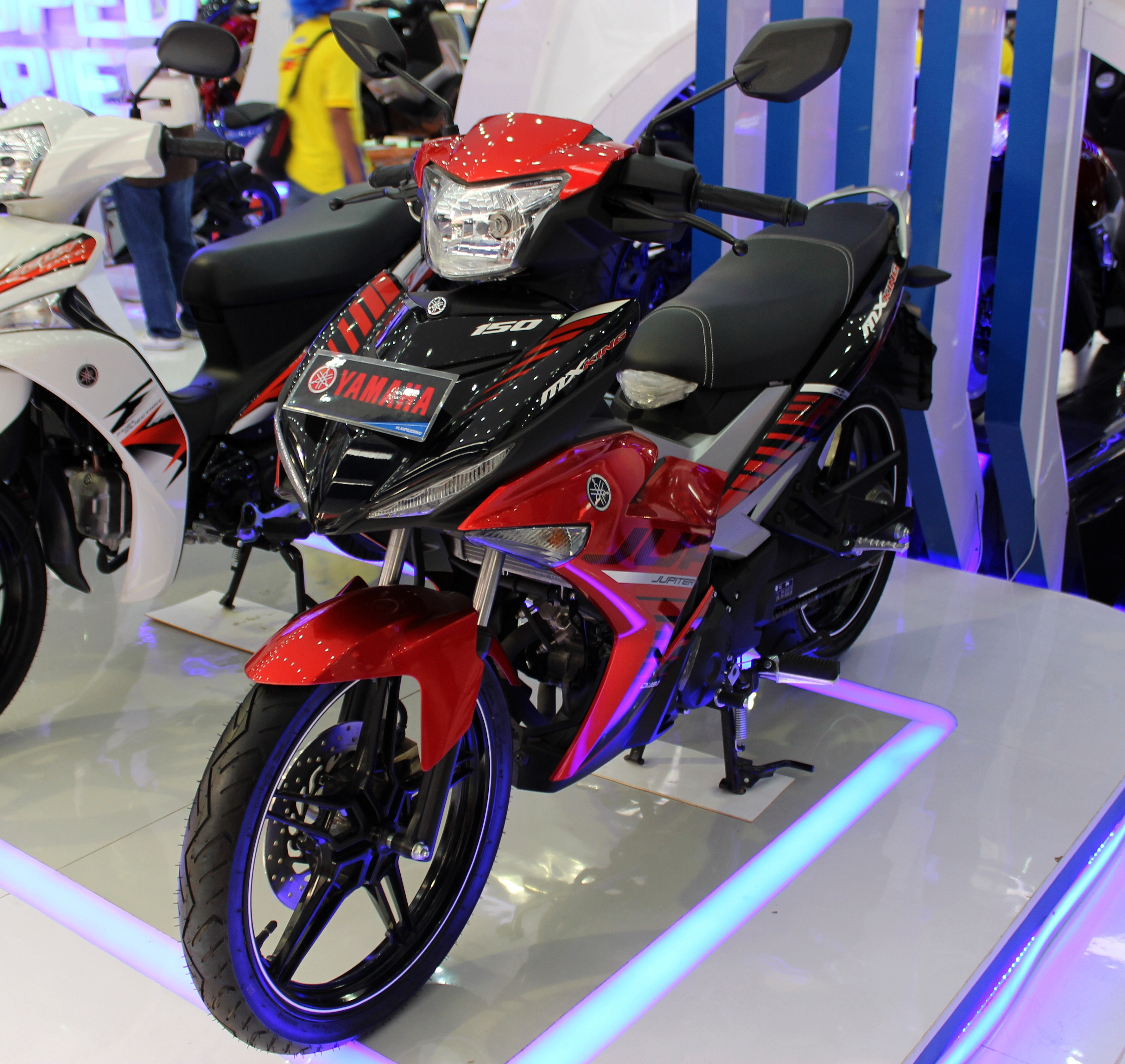 A Yamaha Jupiter MX King 150 photographed in Jakarta Fair 2016, Jakarta, Indonesia on June 21, 2016.